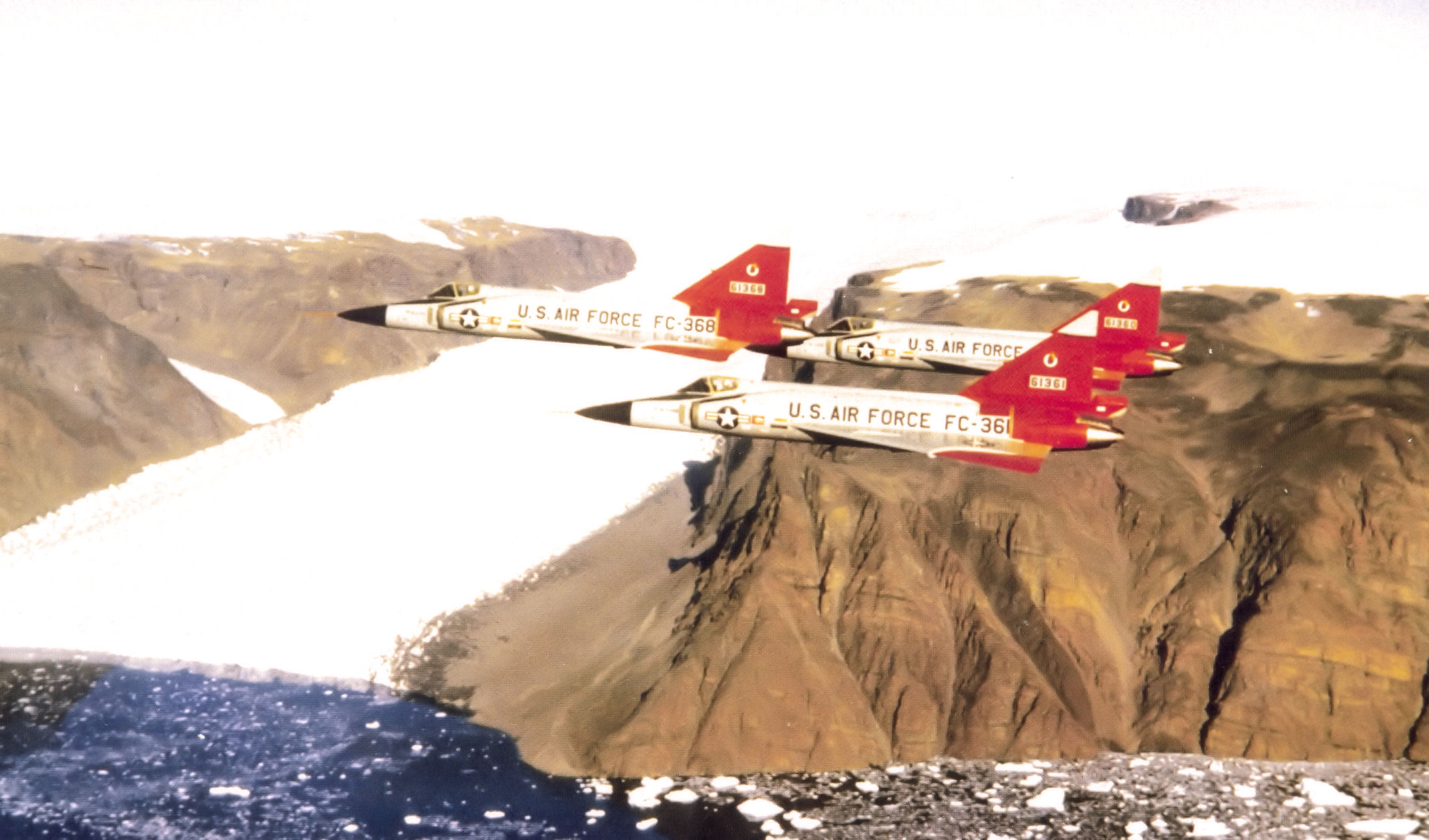 327th Fighter-Interceptor Squadron Convair F-102A-75-CO Delta Daggers 64th Air Division, Thule AB, Greenland August 1958. Identified Aircraft: 56-1361 (closest) 56-1368 (leading) 56-1360 1429 retired to MADSC as FJ0112 Apr 2, 1970 1361 retired to MADSC as FJ0219 Jun 2, 1971 1368 now on statid display at Evergreen Aviation Educational Institute, McMinnville, OR